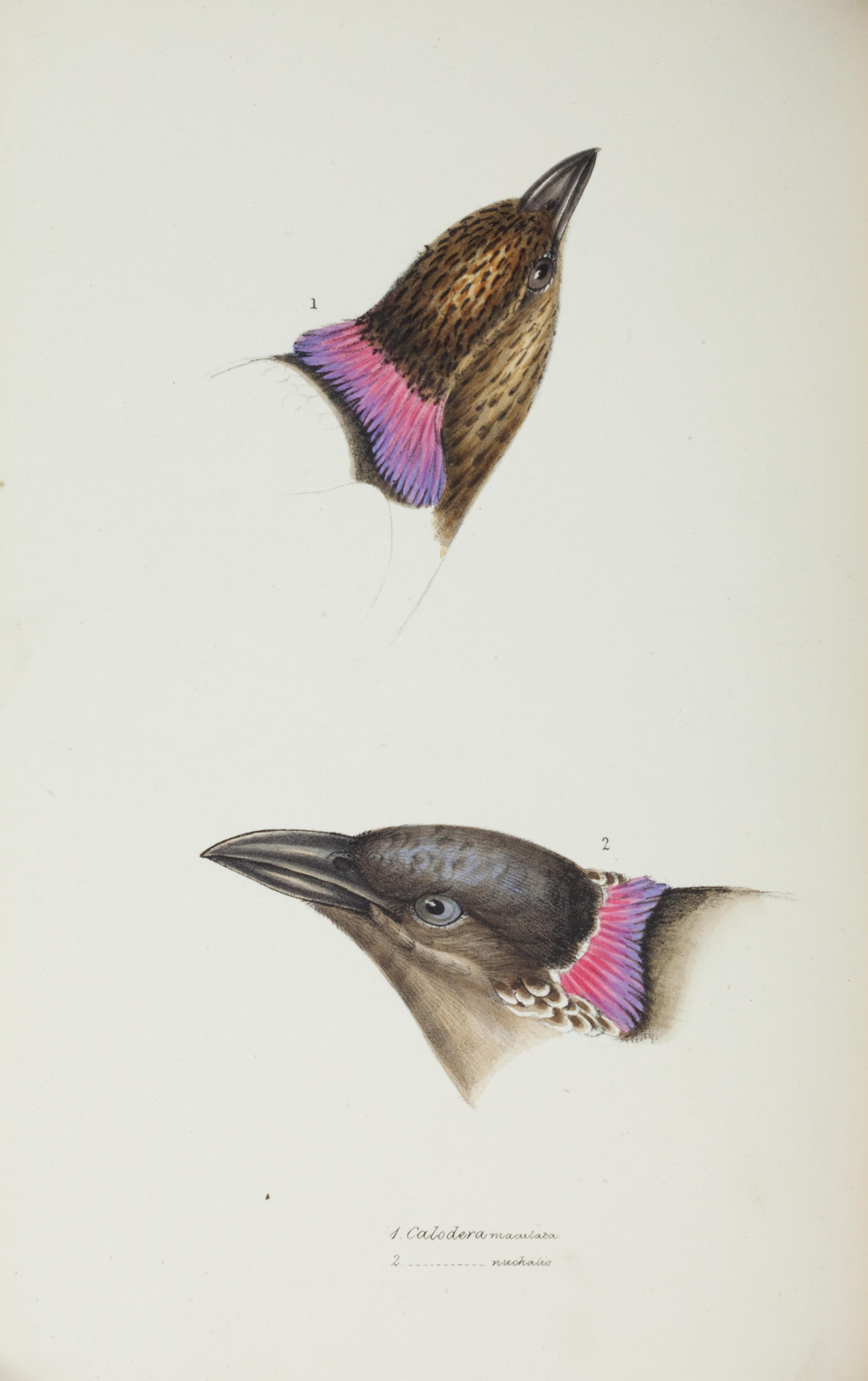 A synopsis of the birds of Australia, and the adjacent Islands /